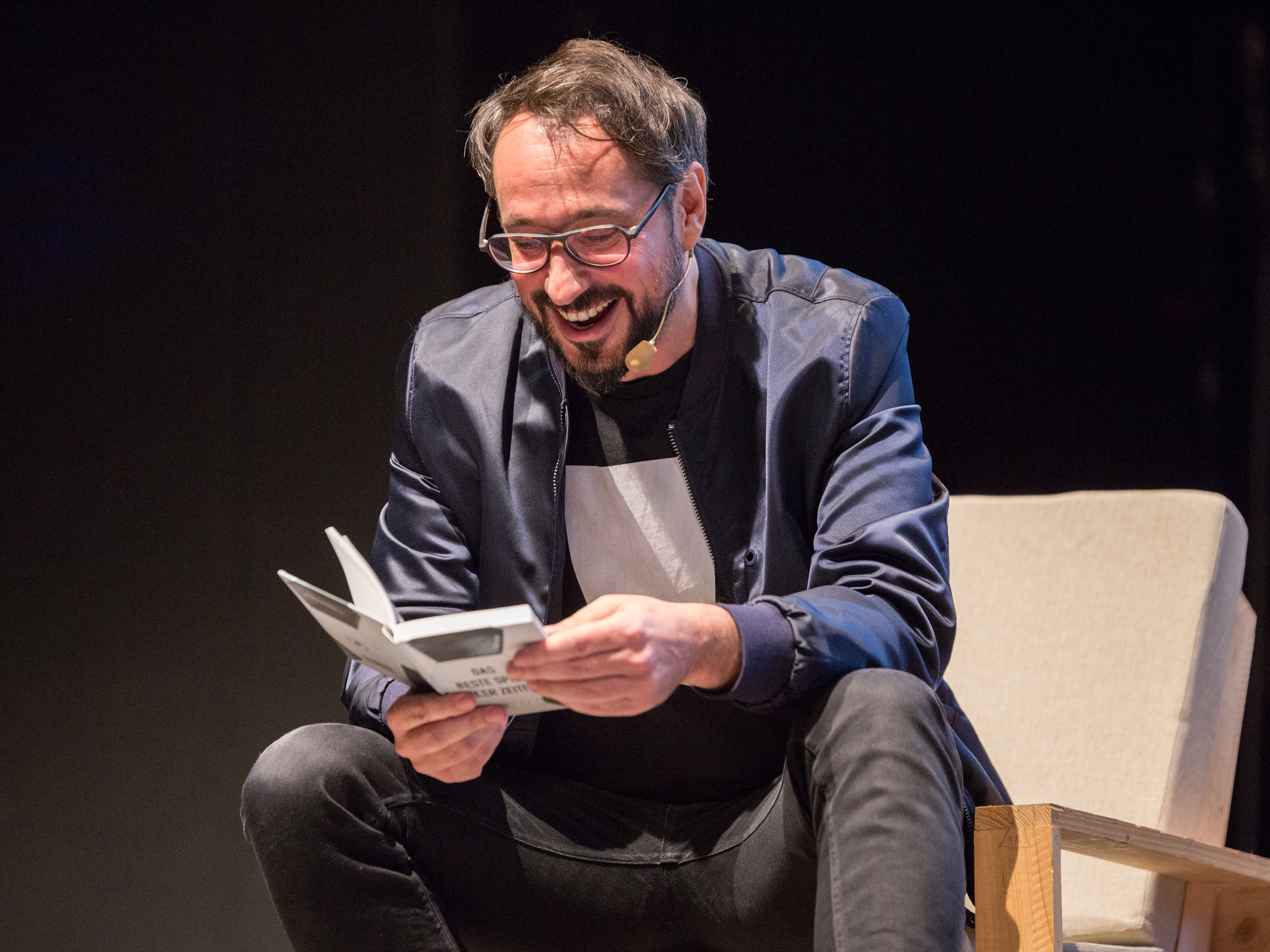 Fons Hickmann reads from his Book Das beste Spiel aller Zeiten at the See-Conference 2016 in the Schlachthof Wiesbaden